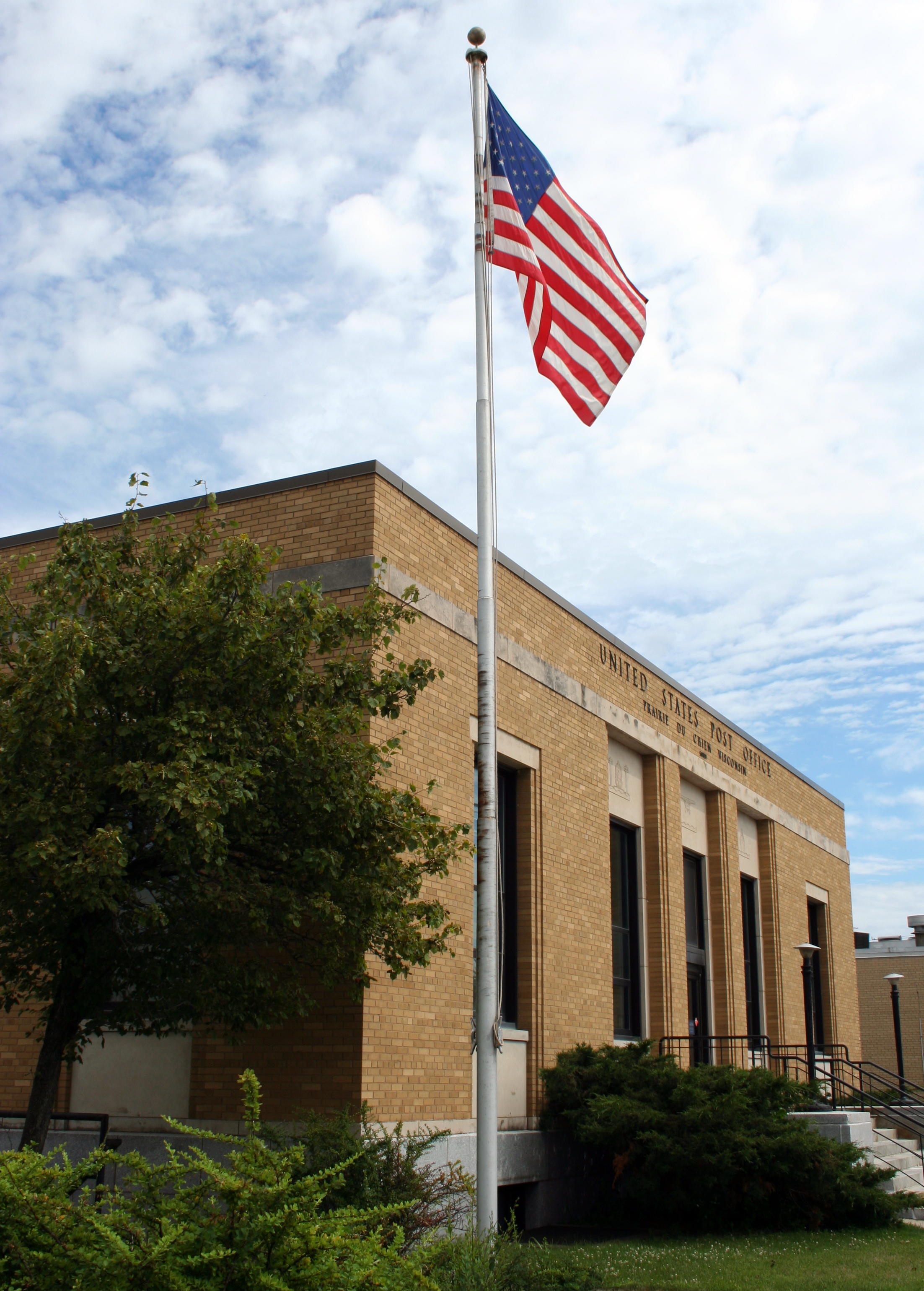 Flagpost and post office, 120 South Beaumont Road, Prairie du Chien, Wisconsin 53821